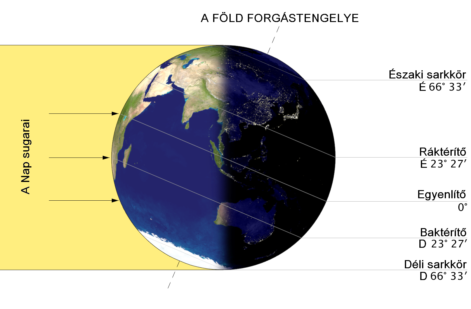 This is a Hungarian version of the image ( Earth-lighting-winter-solstice EN.png). For description see it.